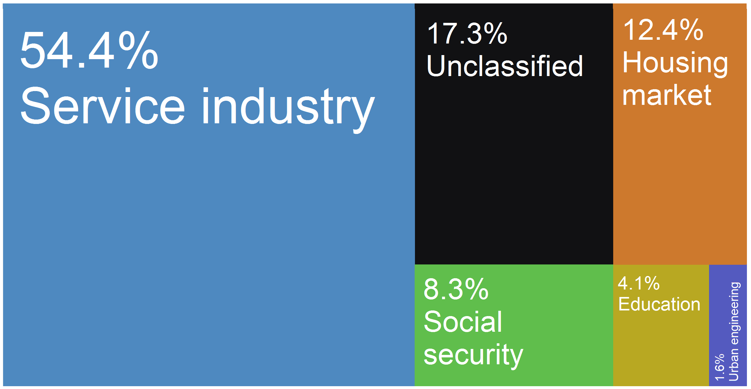 A diagram illustrating the city's budget income sources as of 2015